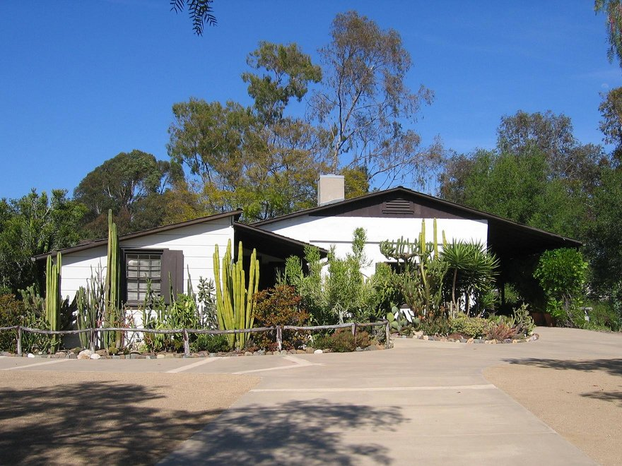 An exterior view of the Serrano Adobe facing northeast.